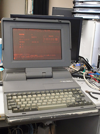 NEC PC-9801LS laptop computer released in late 1980s in Japan. I resize the image not to recognize the screen because it is possibly copyrighted.